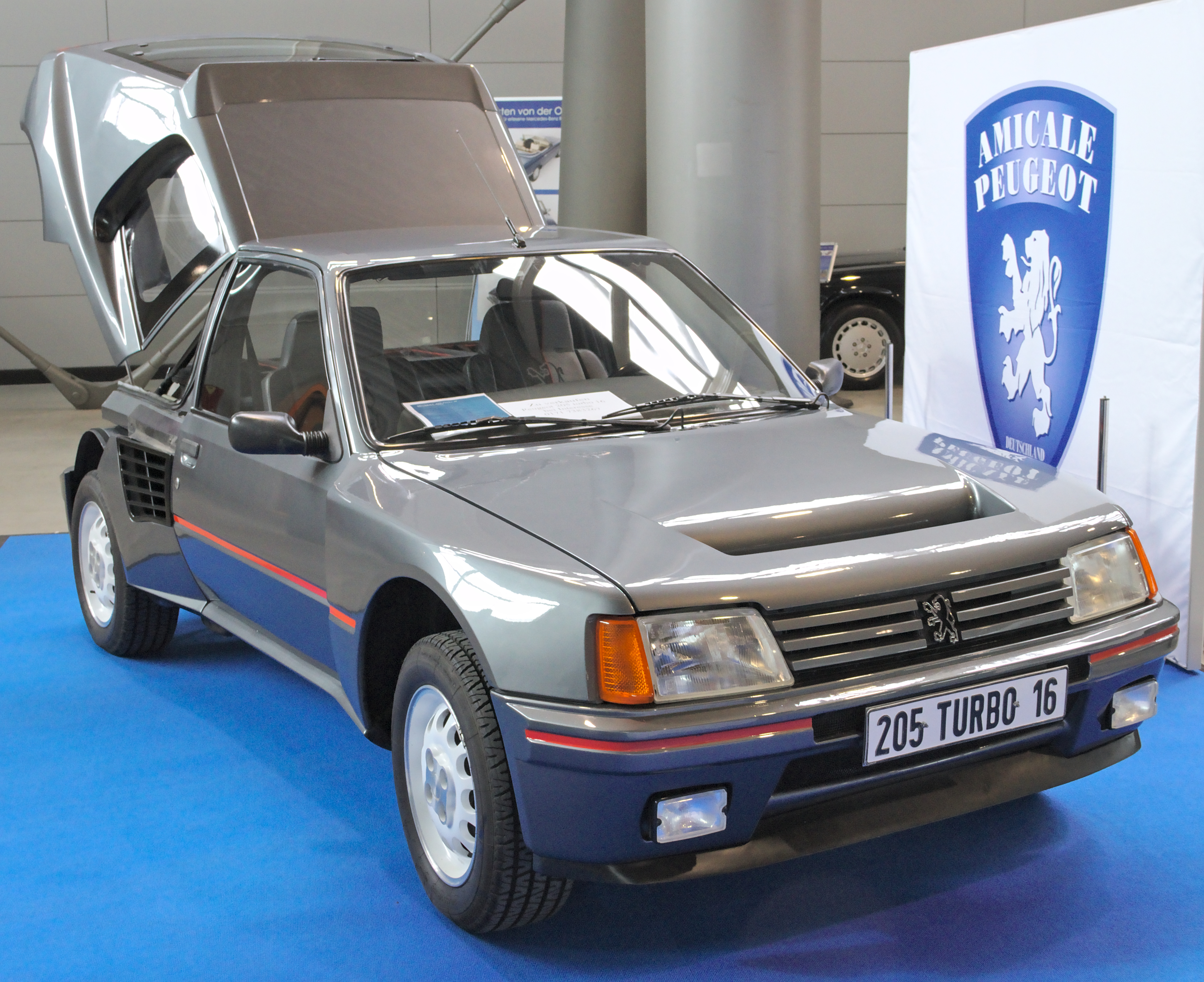 Peugeot_205_Turbo_16_(road_car) at Retro Classics 2020